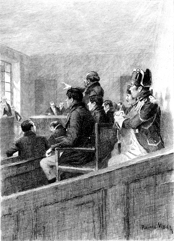 Illustration of Honoré de Balzac's A Dark Affair (1843): "The Assize of Troyes".